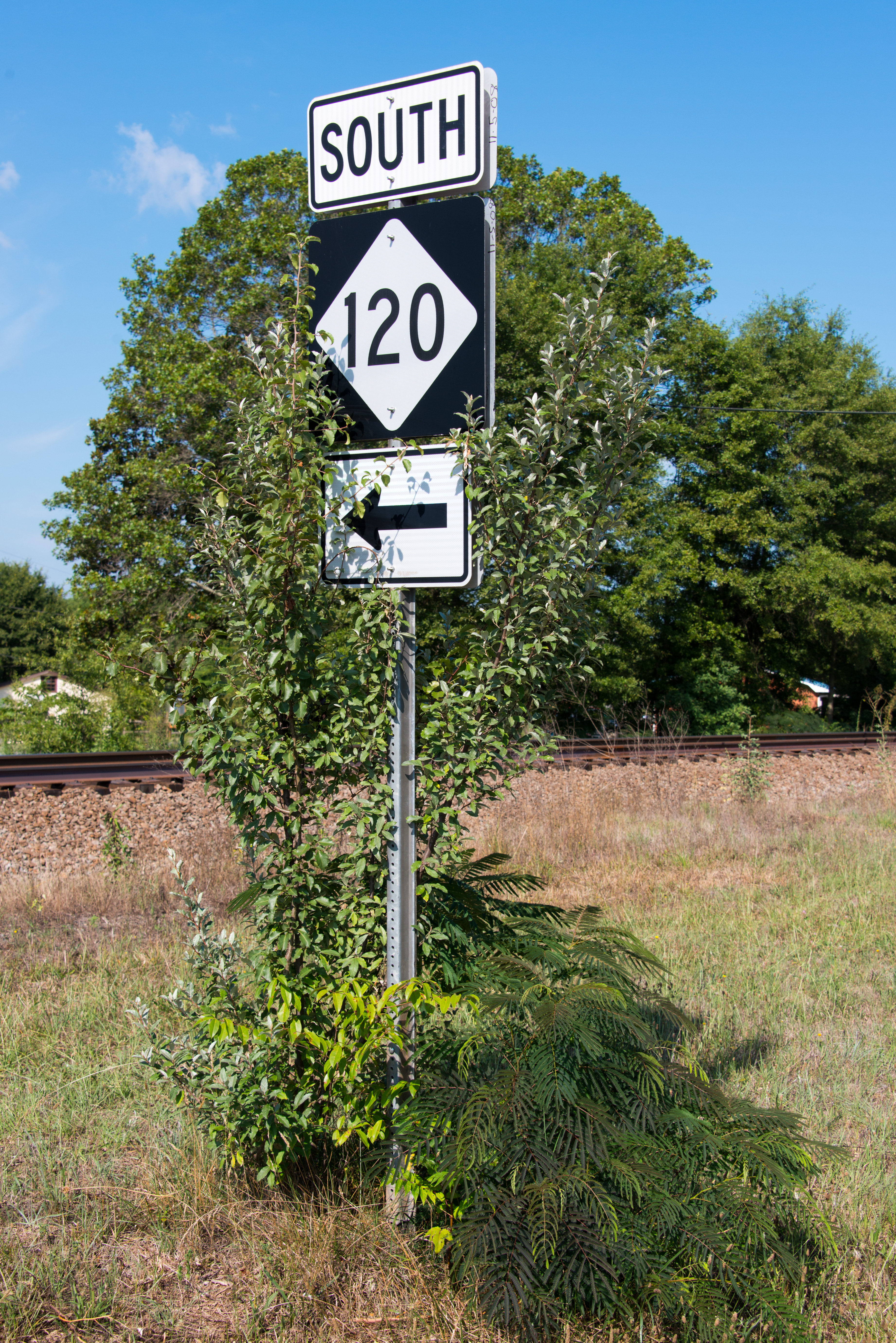 Overgrown shrubbery on the NC 120 sign as it directs travelers along US 74 Business, west of Mooresboro.